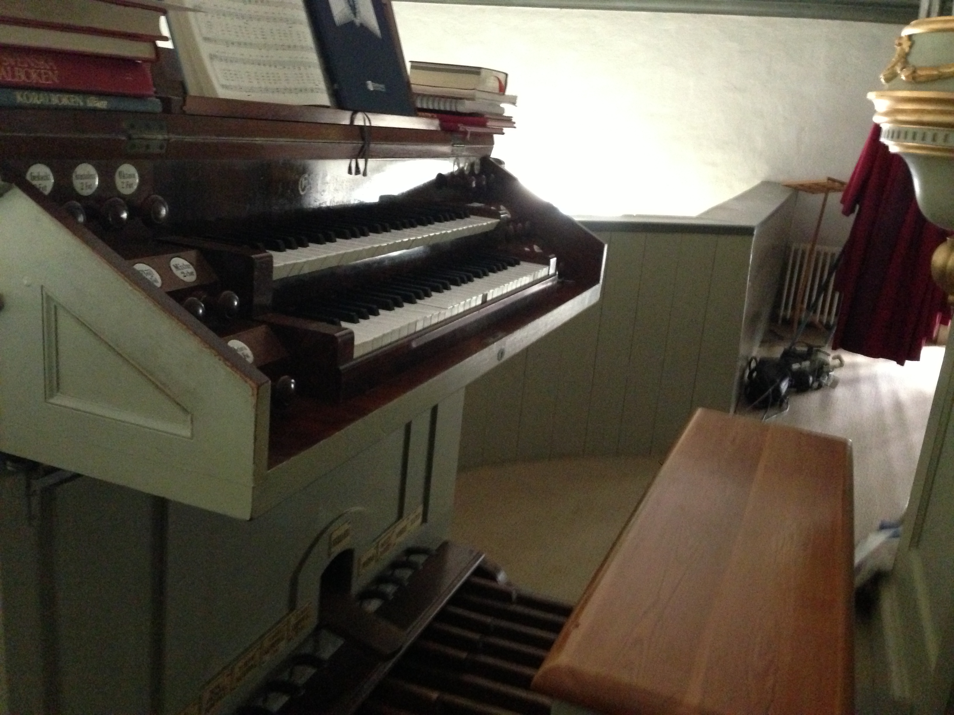 Organ in Södra möckleby kyrka, Öland, Sweden